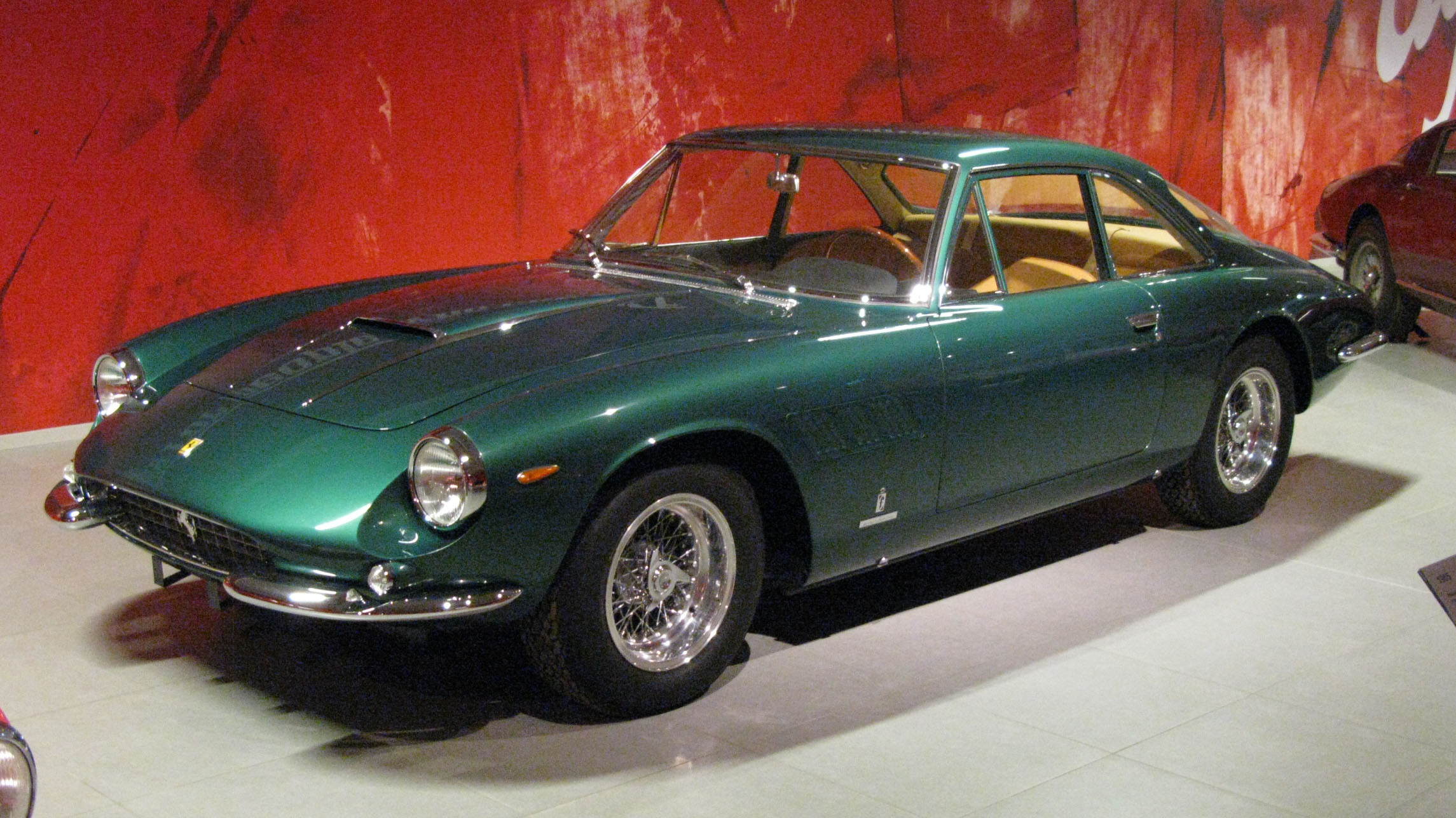 1964 Ferrari 500 Superfast.